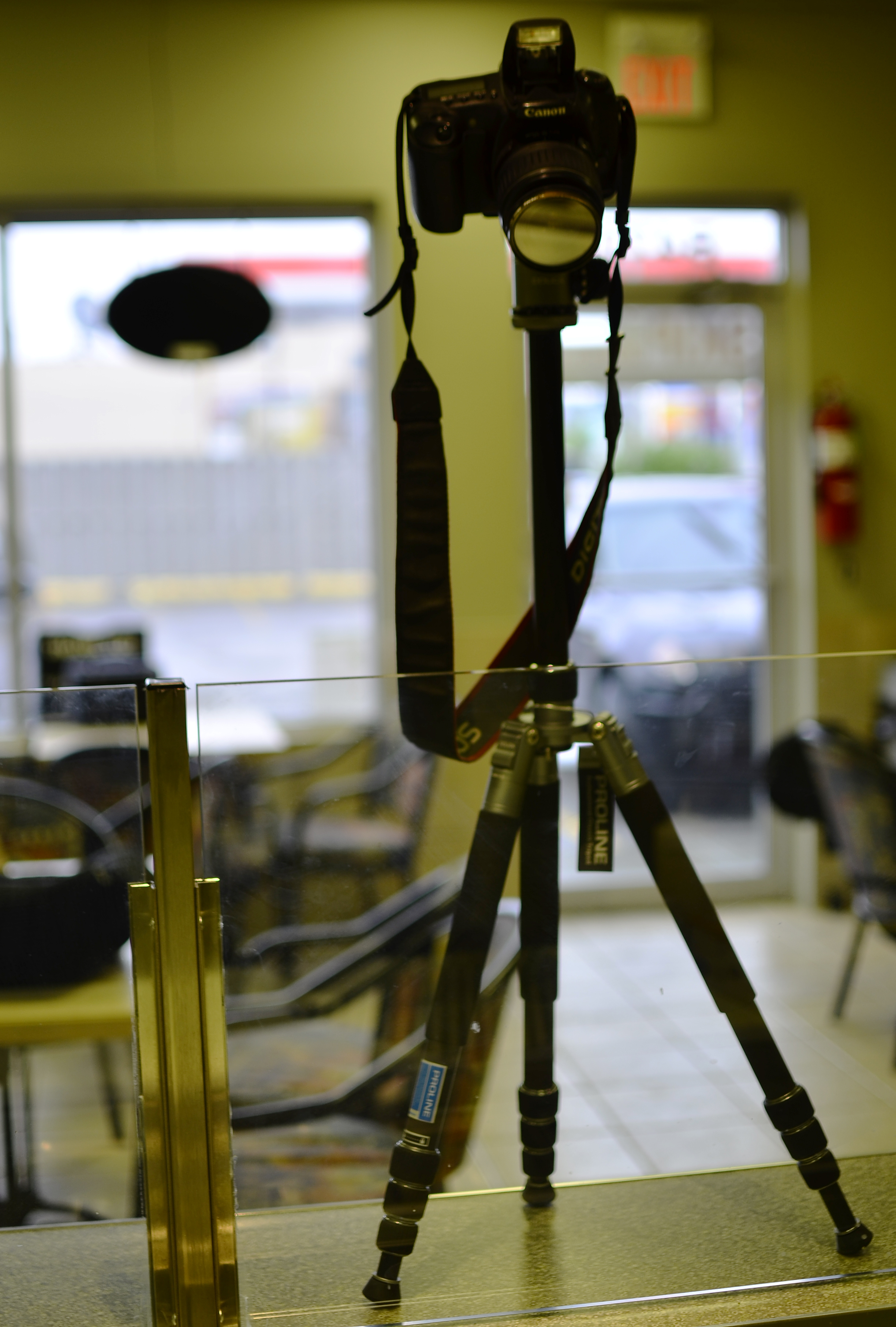 Camera tripod in a restaurant setting.